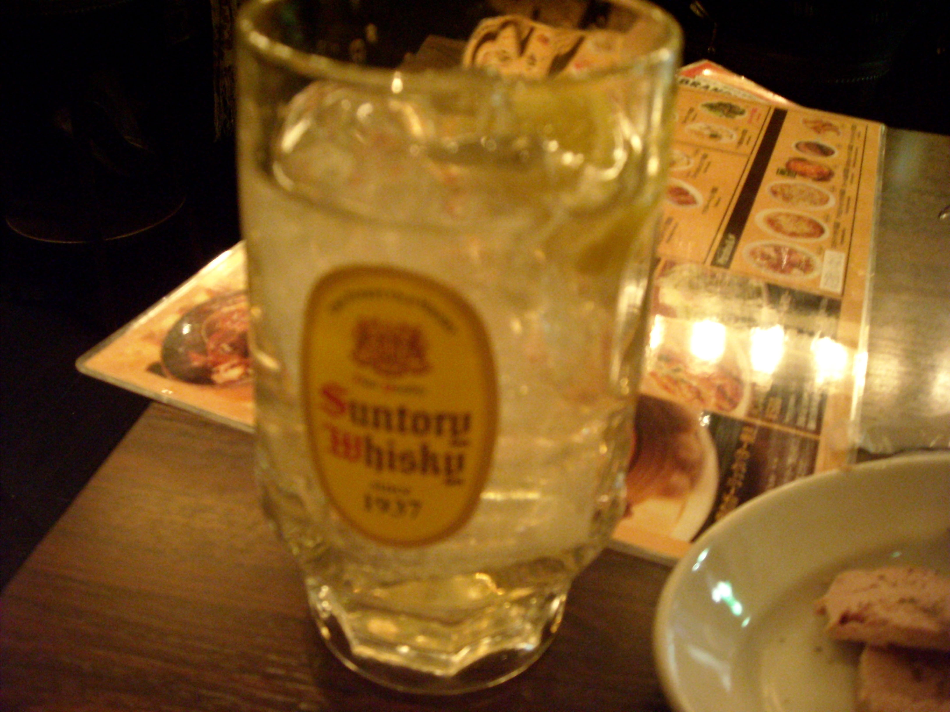 Highball (Kaku high lemon)